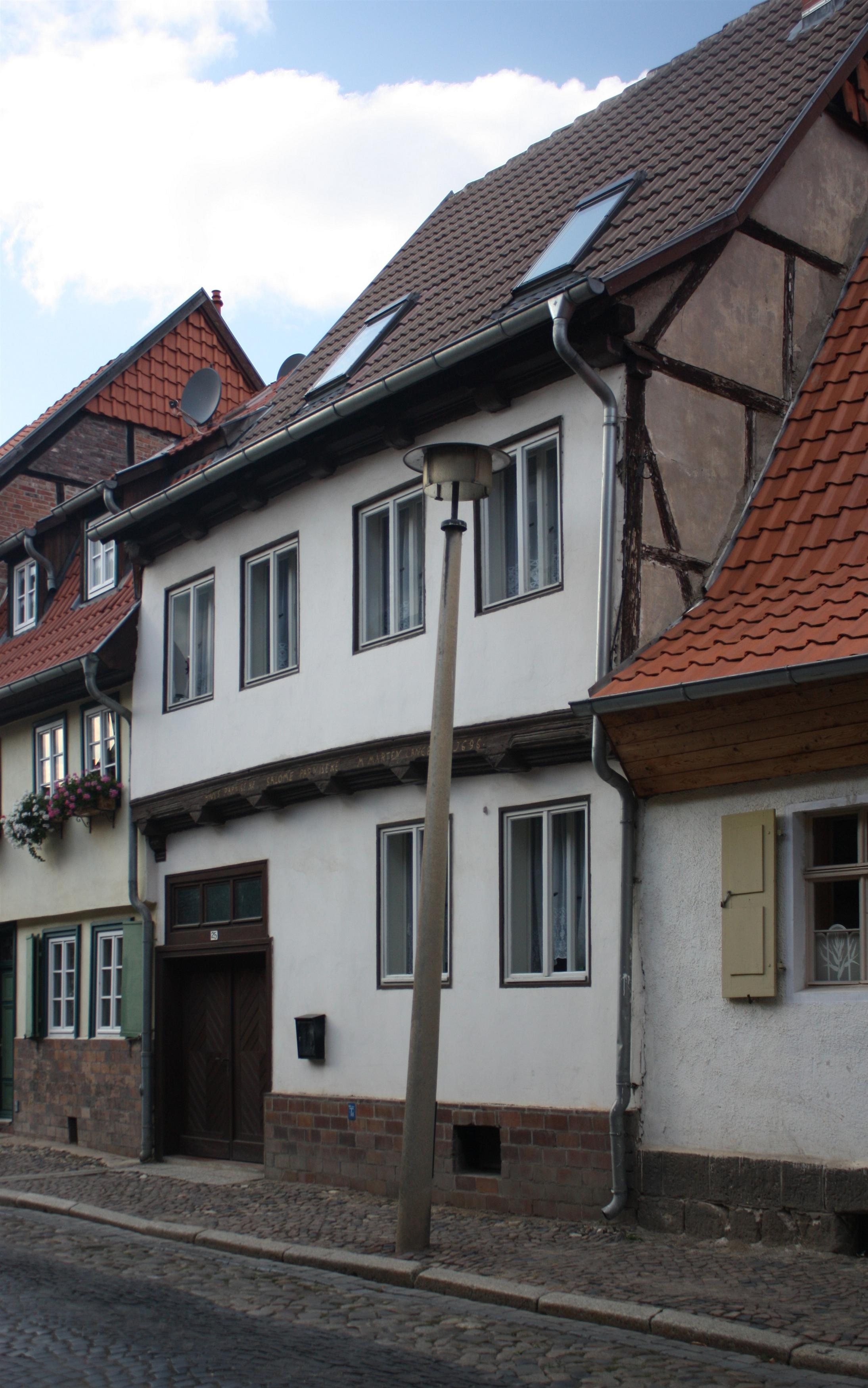 This is a photograph of an architectural monument.It is on the list of cultural monuments of Quedlinburg Augustinern 25 in Quedlinburg